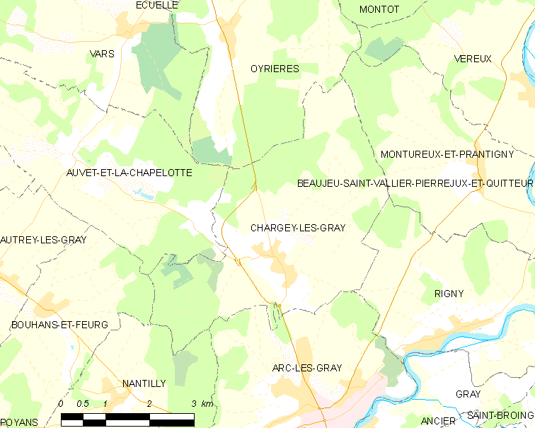 Map of French municipality